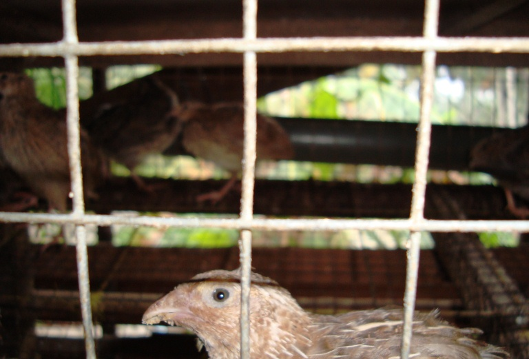 Quail cages made ​​of wood plate.